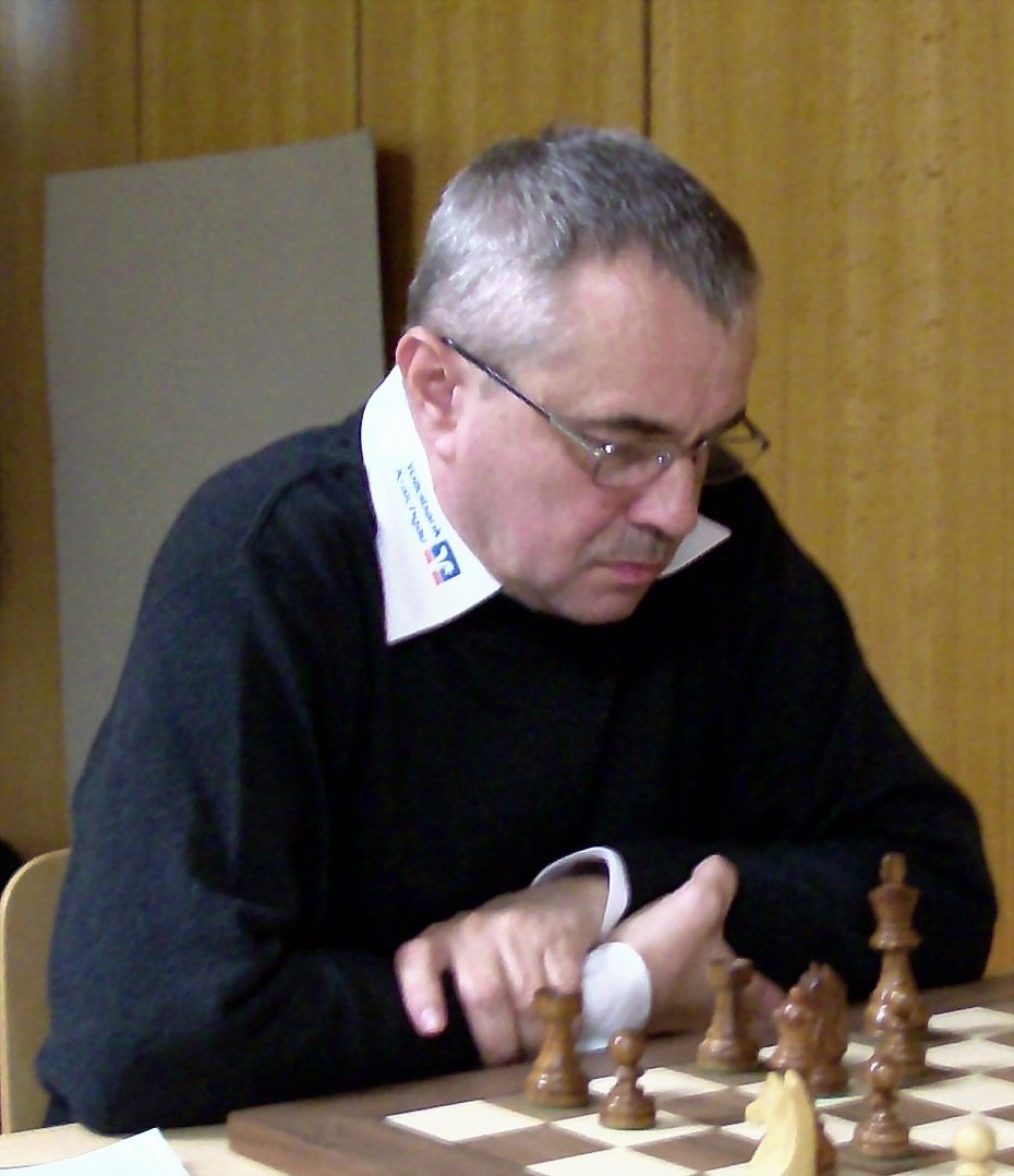 Lothar Vogt, German chess grandmaster